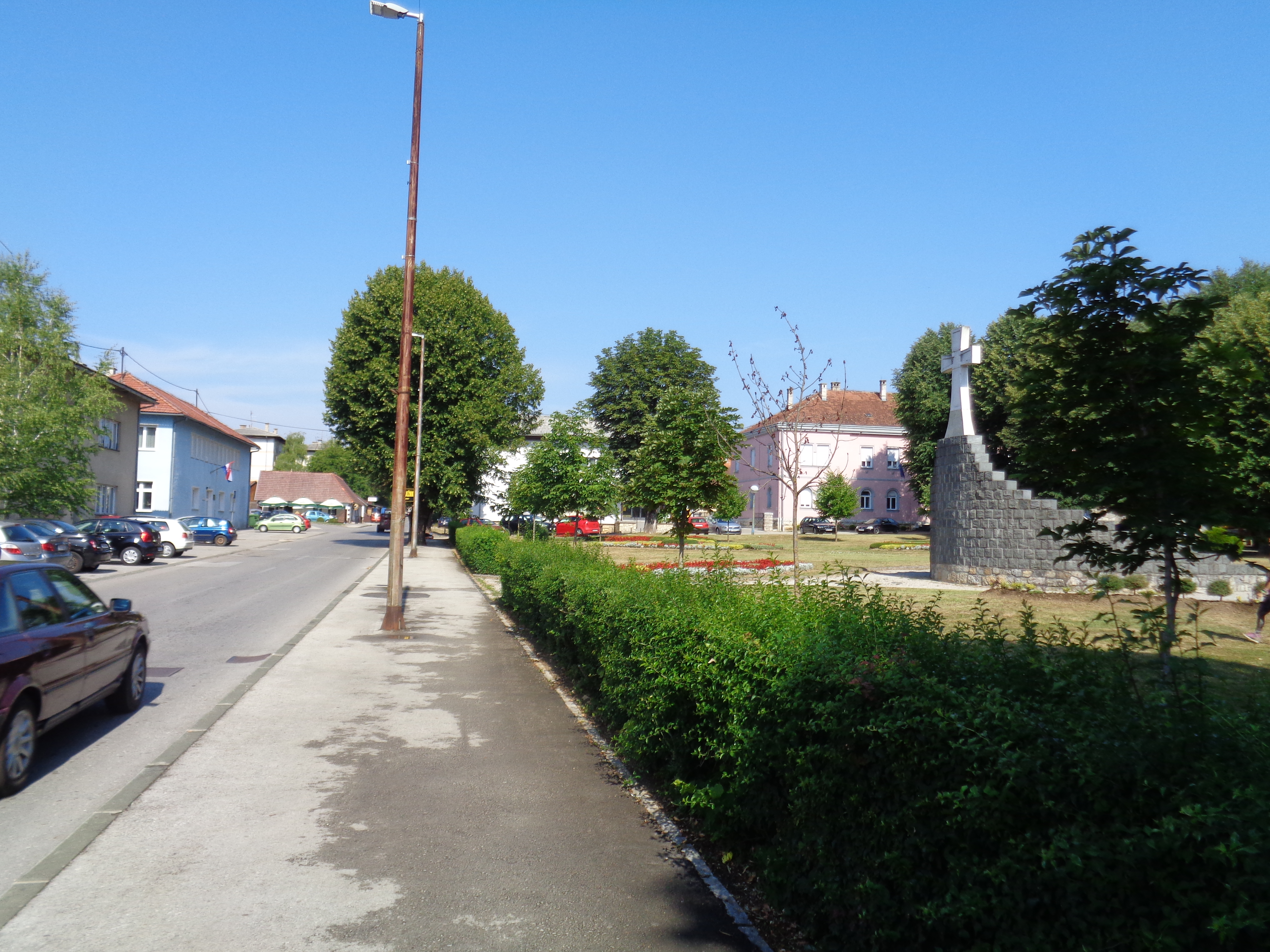 Slunj, Karlovac County, Croatia - Franjo Tudjman Ph.D. Square